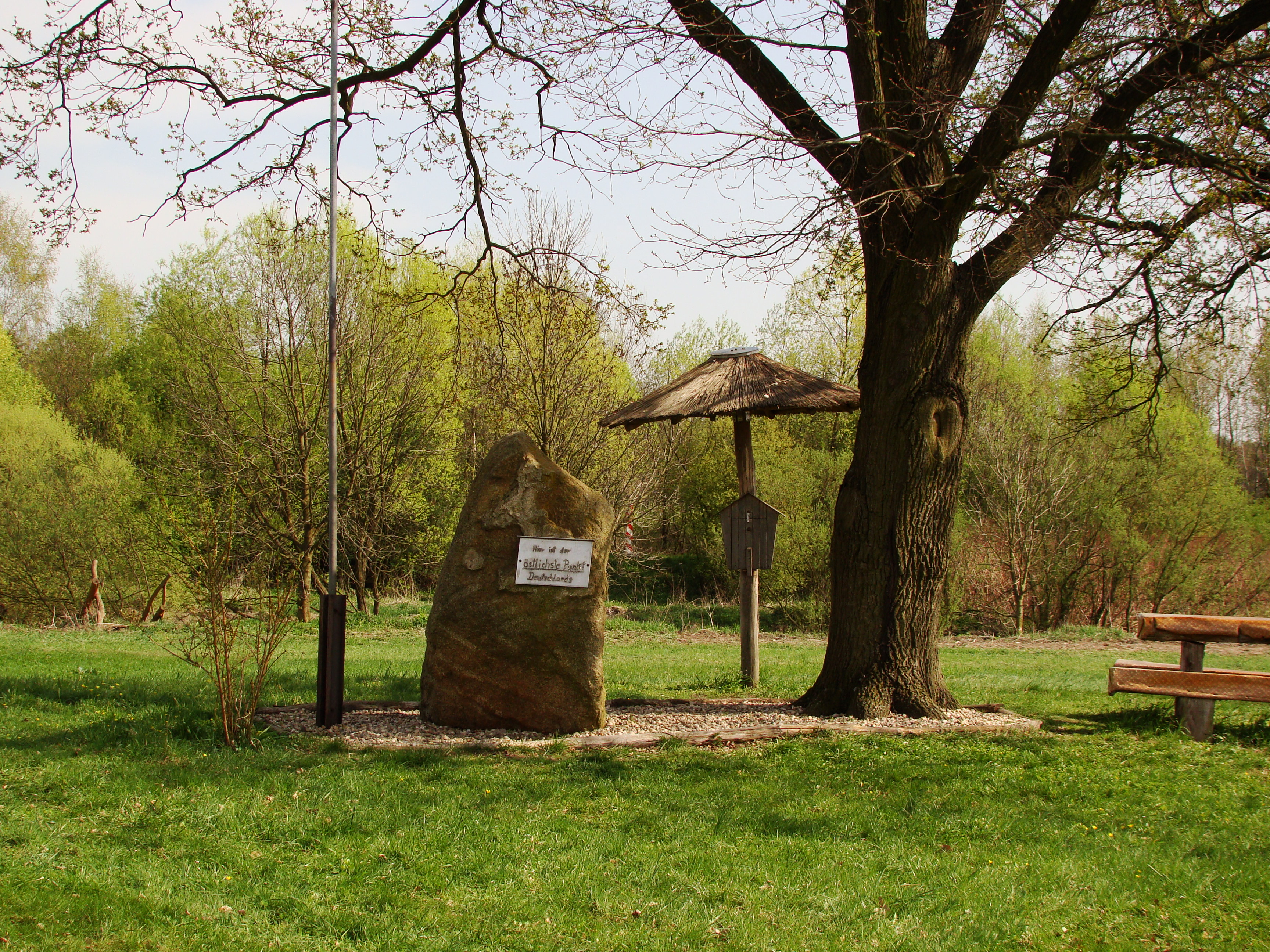 The easternmost point in Germany (51°16´22´´ north, 15°02´37´´ east), situated in the municipality Neißeaue, location near Zentendorf (district Görlitz)